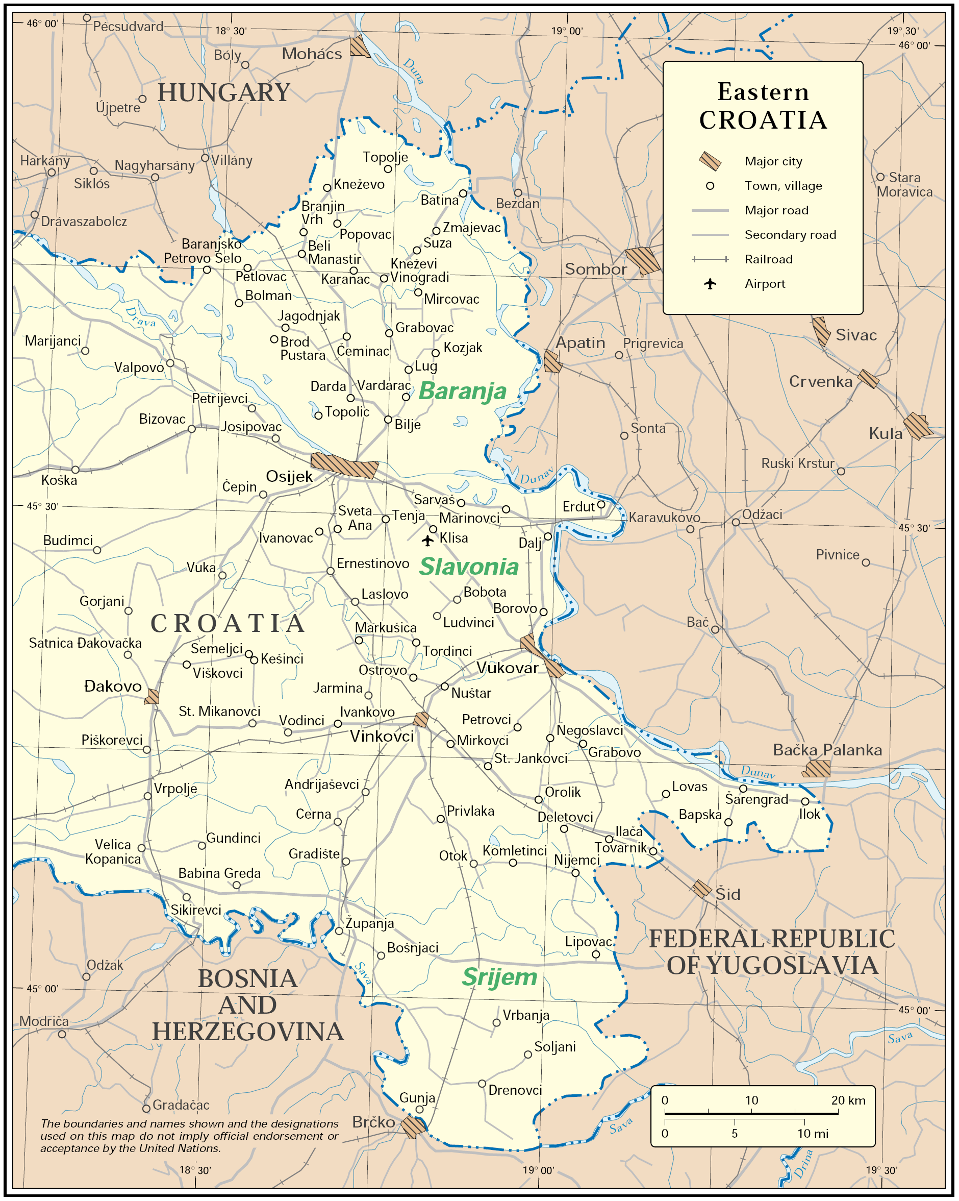 Map of Eastern Croatia